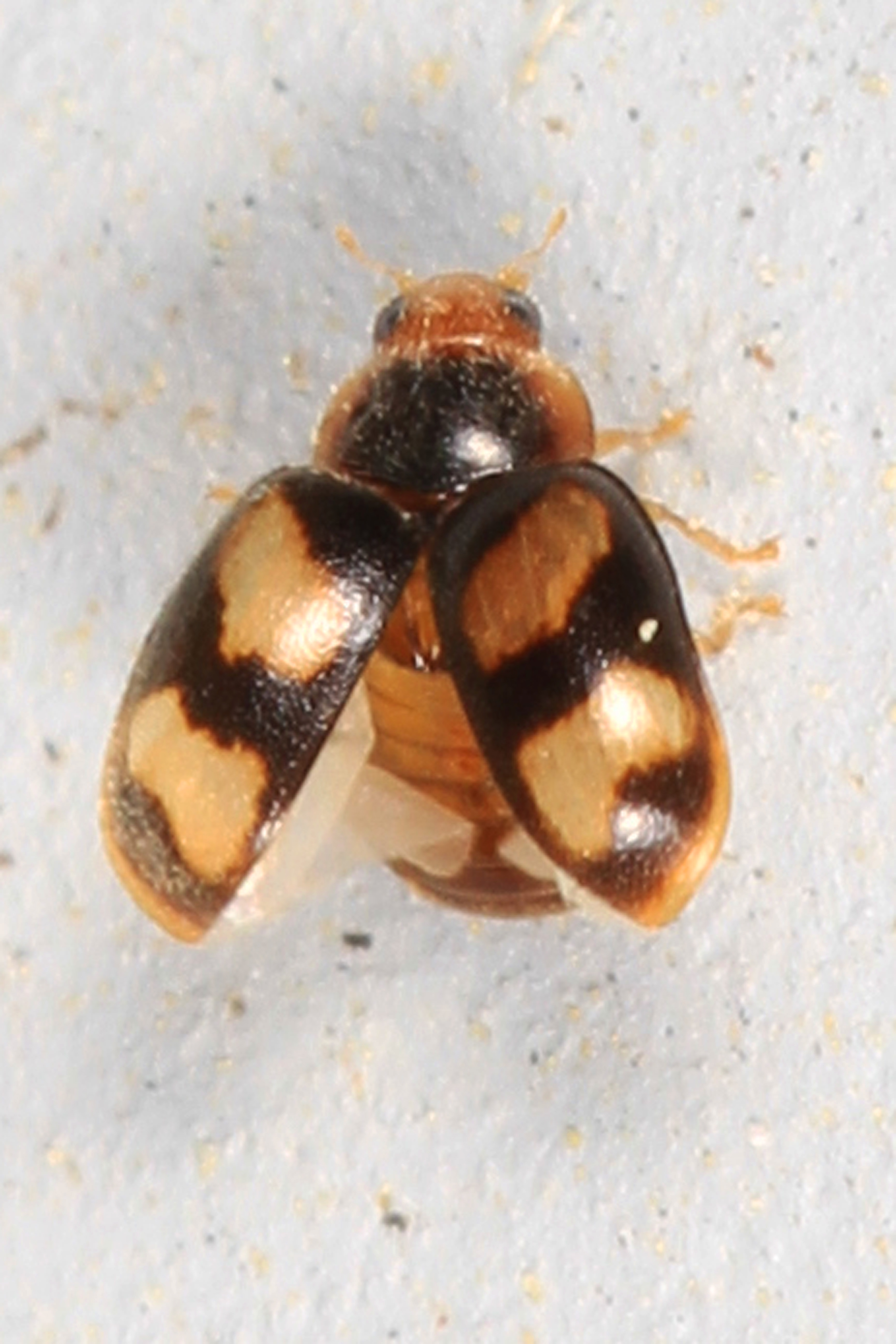 Lady Beetle - Diomus amabilis, SERC, Edgewater, Maryland.